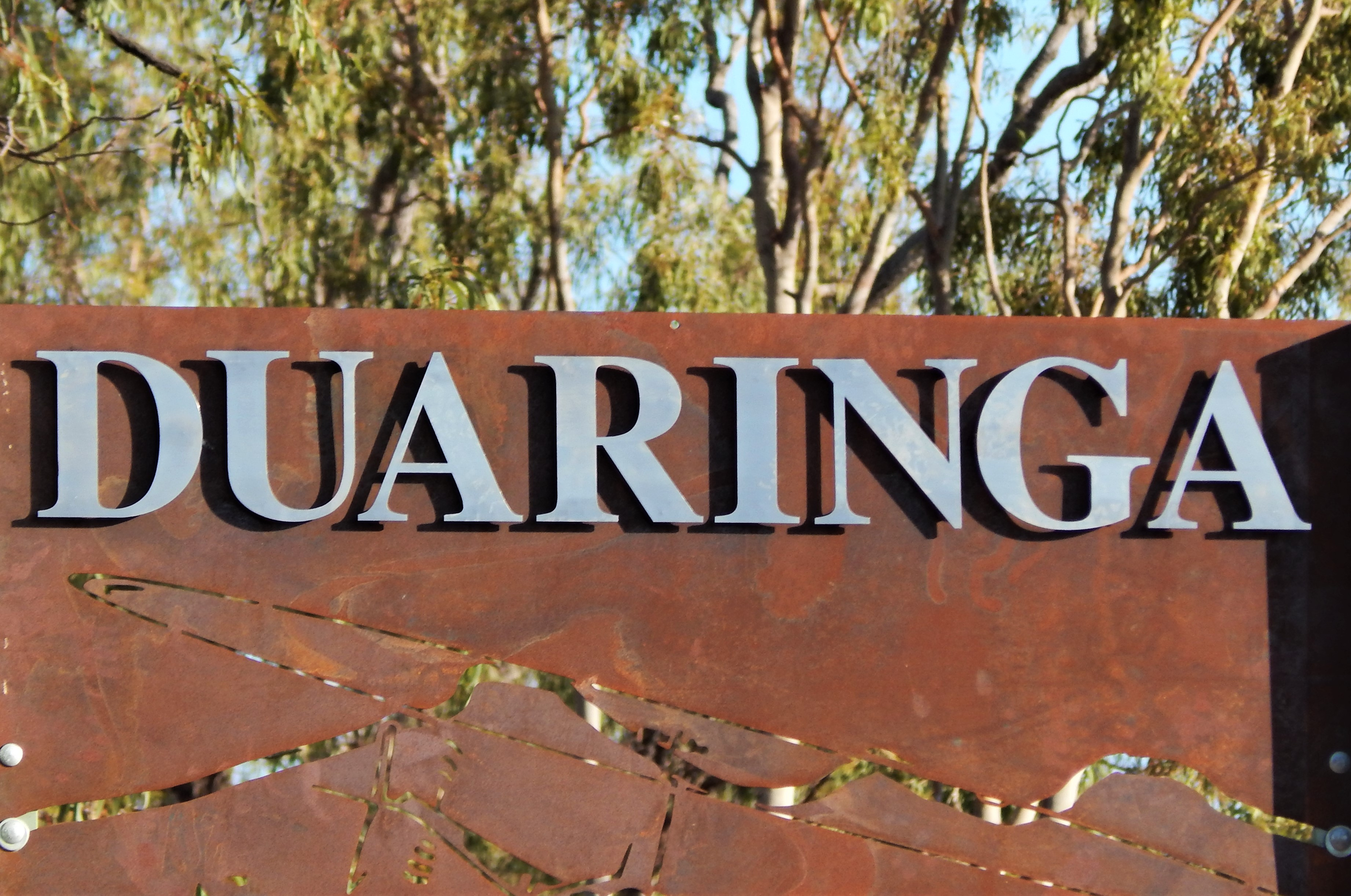 The Duaringa lettering on the sign located at the south-eastern entrance to the town of Duaringa, Queensland